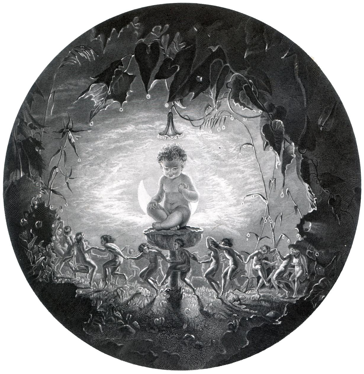 Puck and the Fairies (from Midsummer Night’s Dream)